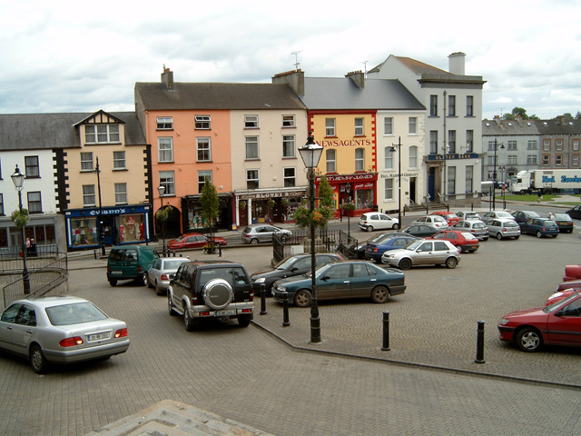 Clones town centre